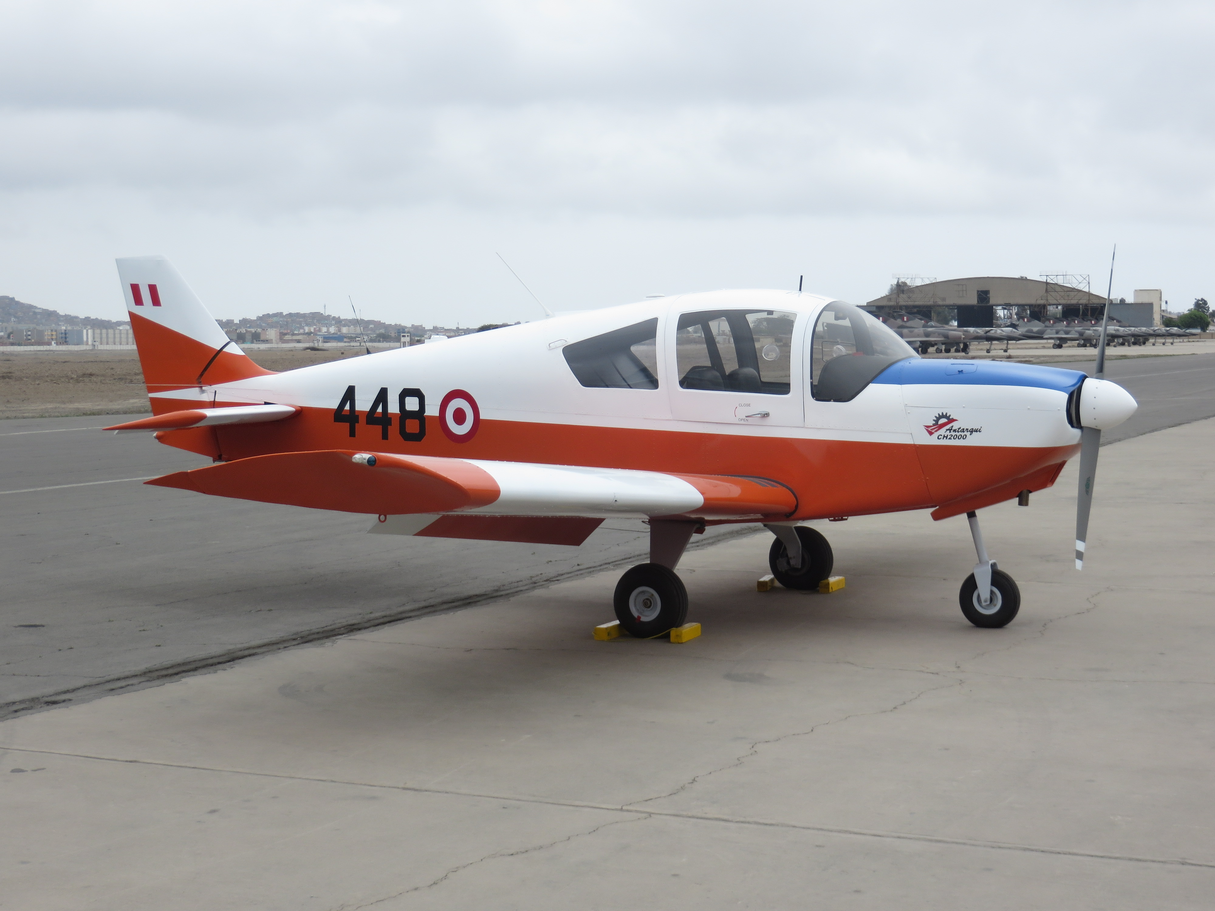 AMD Alarus CH2000 Antarqui (FAP-448). Peruvian Air Force